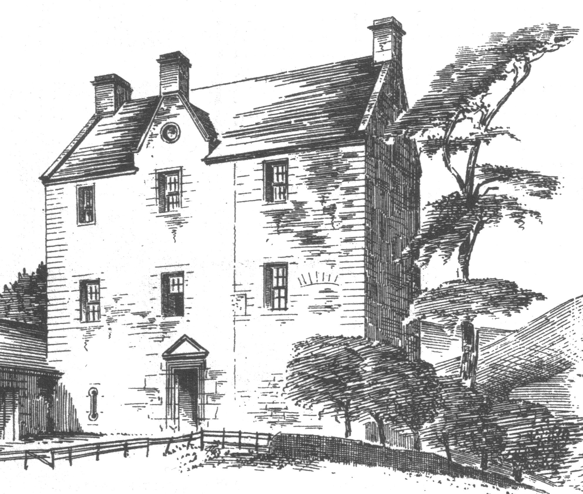 A view of Aiket Castle prior to its restoration following a fire in 1957. Ayrshire, Scotland.